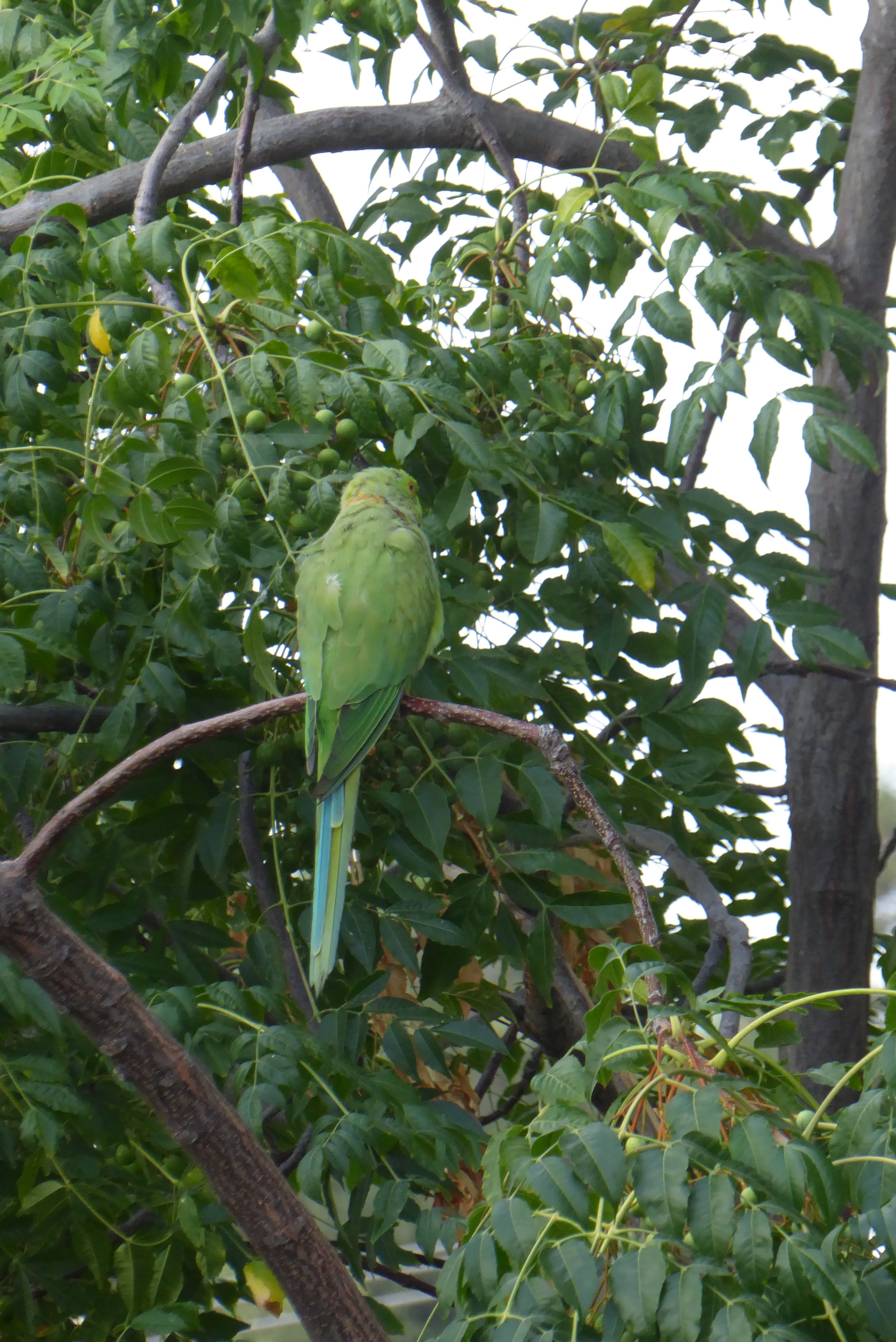 Green Parrot in Ramat Gan